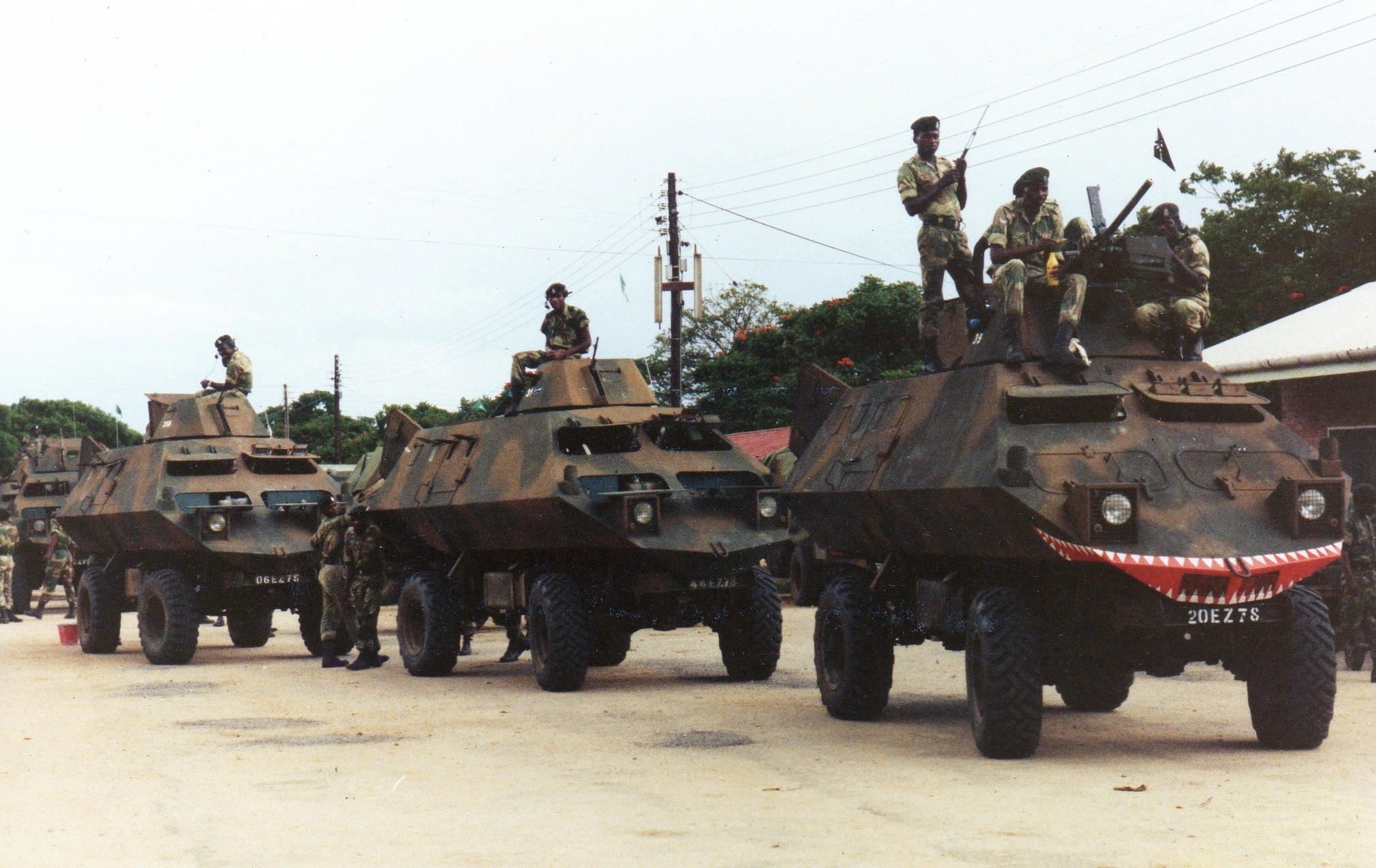 Mineproofed armoured vehicles of the Zimbabwe National Army (ZNA) at Methuen Barracks, 1980. These are being manned by personnel of "C" Company, 1 Rhodesian African Rifles.